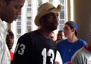 Leon at Madison Square Garden after a USA Basketball vs. Puerto Rico game.